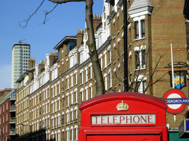 Charing Cross Road London icons: red telephone box, Underground roundel, pub sign and Centre Point (the tall office block in the background).